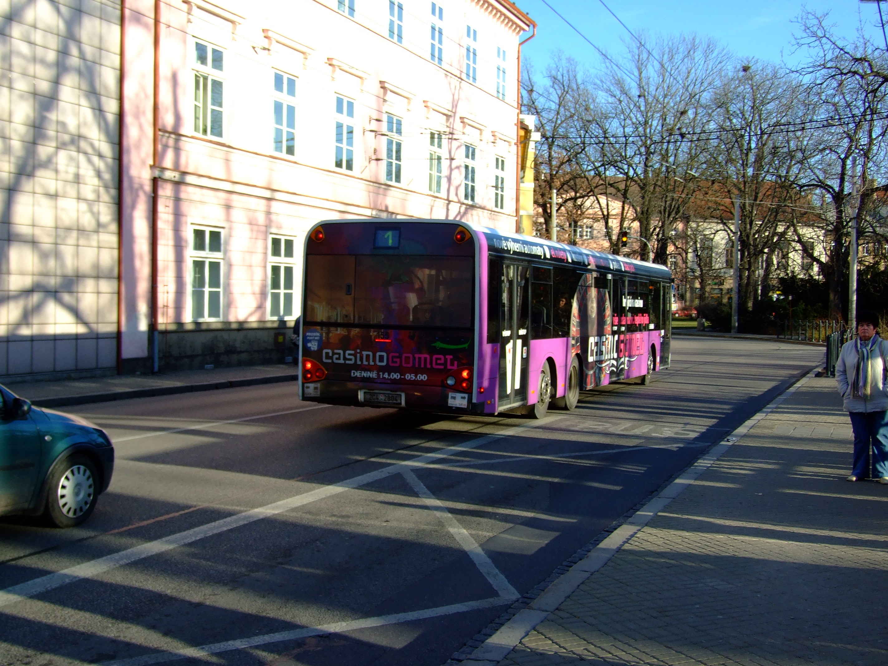 Solaris Urbino 15 Mk2 bus (#155) in České Budějovice, Czech Republic. Built 2004. DP České Budějovice operator.